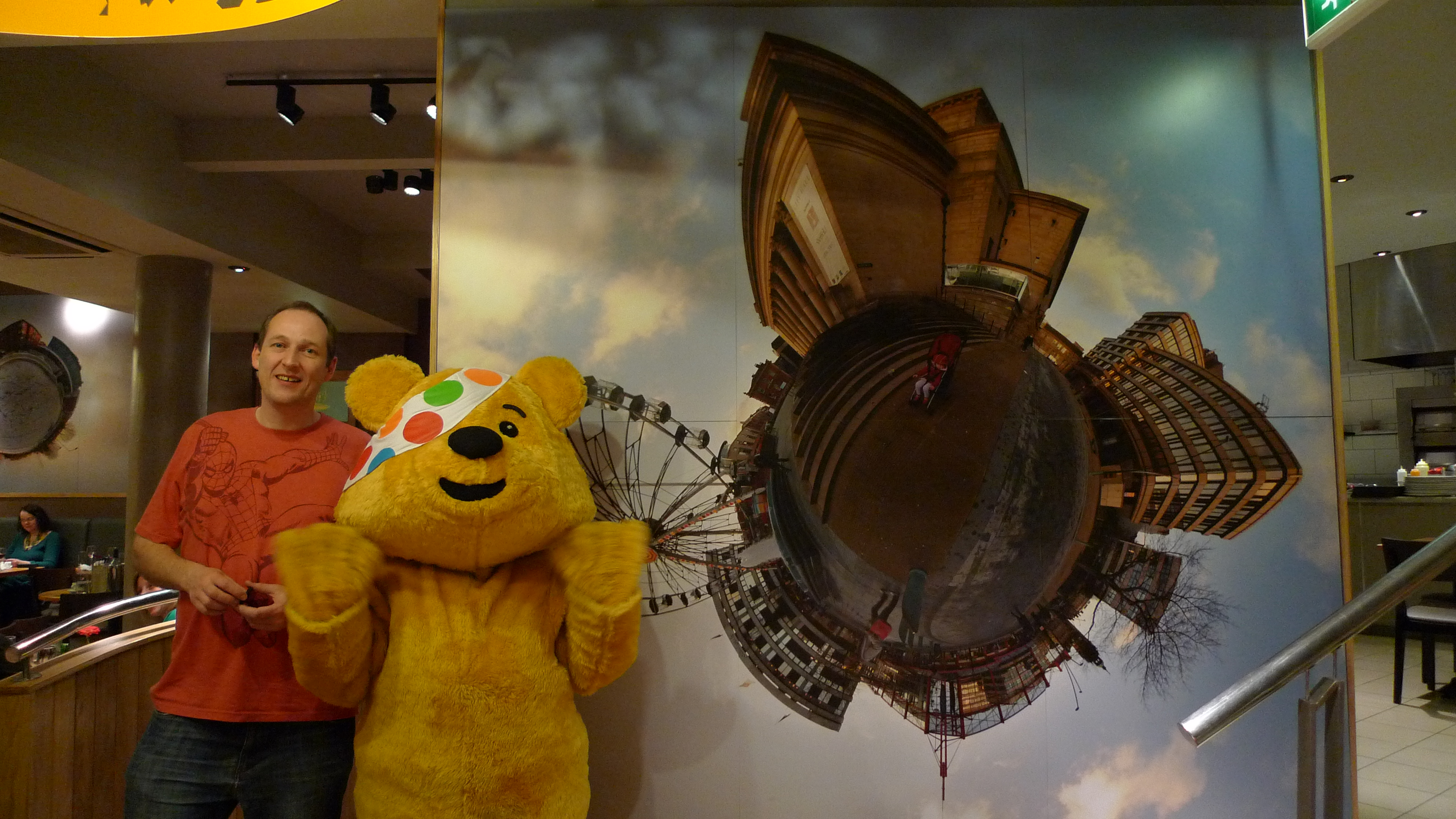 Pudsey Bear raising funds for BBC Children in Need 2009, in a Sheffield Pizza Express